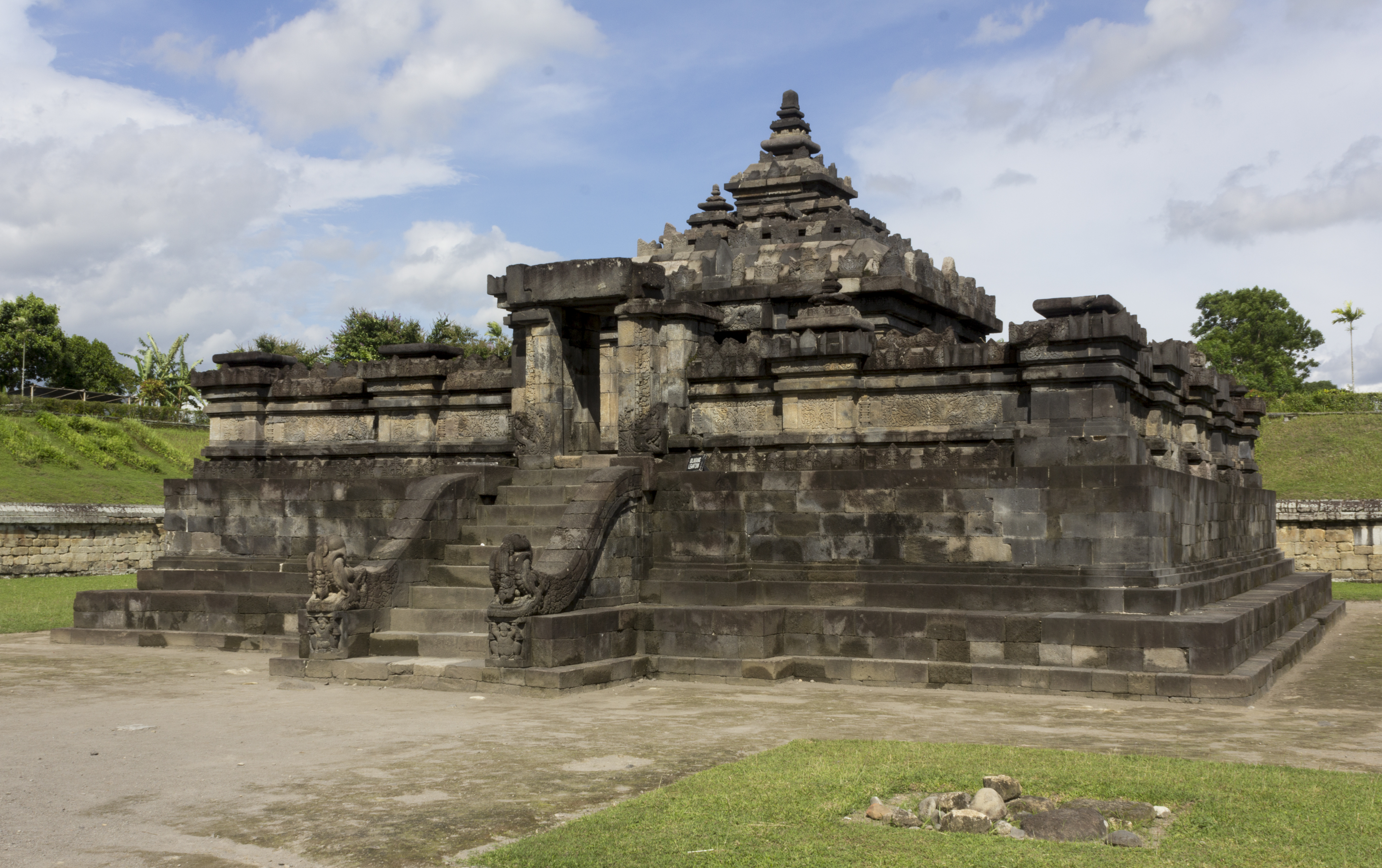 Main temple of Candi Sambisari, Sleman, Yogyakarta